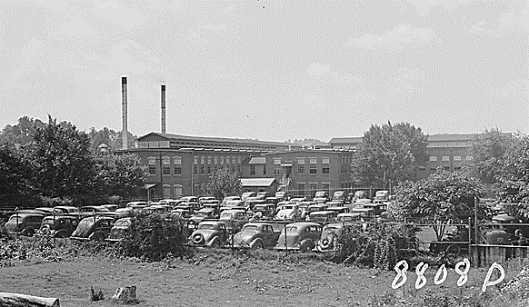 Harriman Hosiery Mills in Harriman, Tennessee, USA, photographed in 1940 by TVA as part of the Watts Bar Dam project.